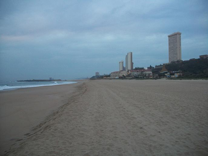 The main beach at Amanzimtoti at sunrise on a cloudy day